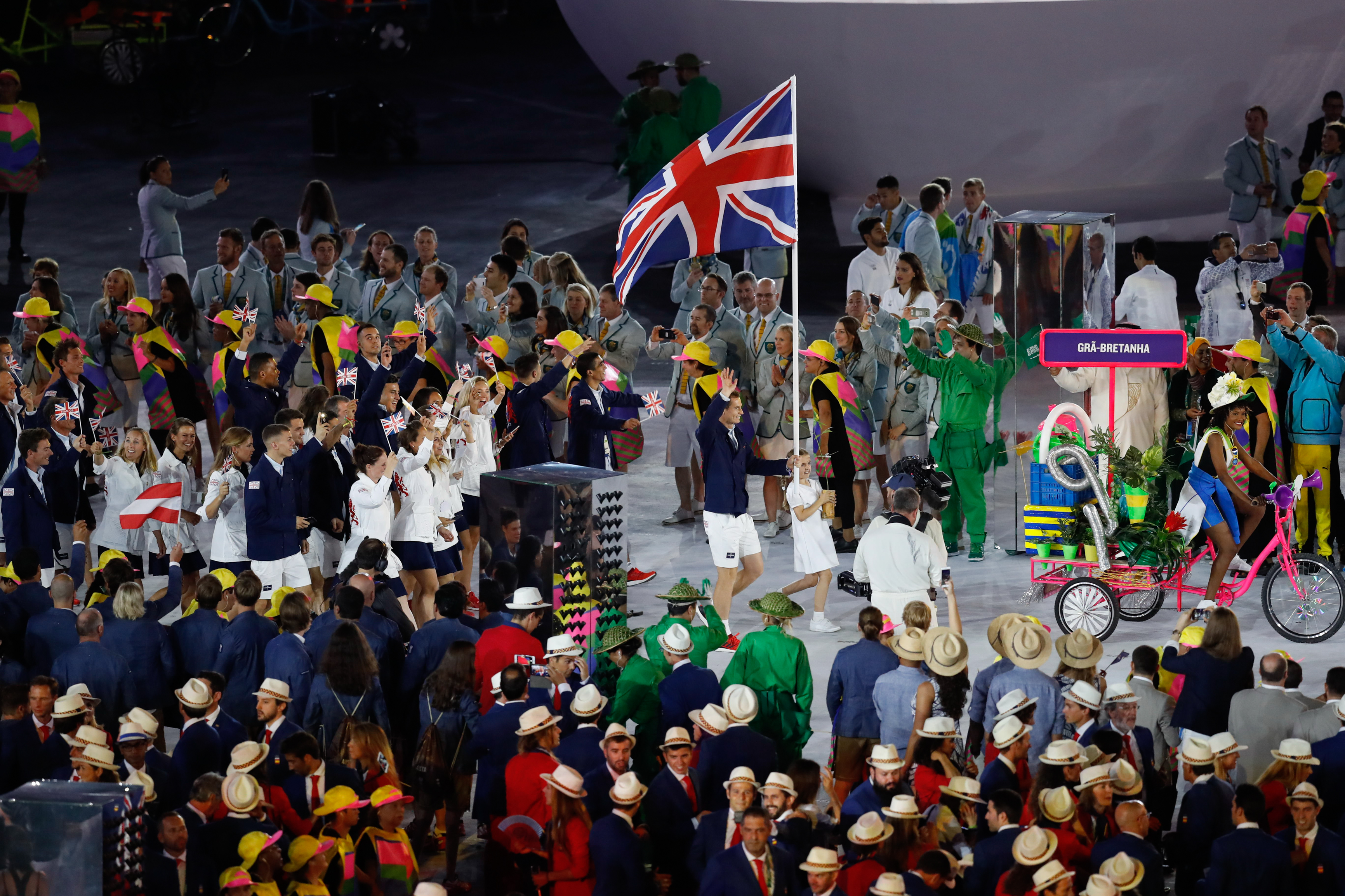 Rio de Janeiro - Cerimônia de abertura dos Jogos Olímpicos Rio 2016 no Estádio do Maracanã. (Fernando Frazão/Agência Brasil)